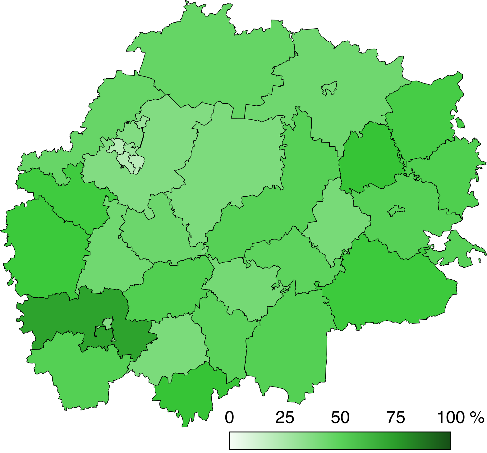 Turnout in the 2017 election of the Governor of Ryazan Oblast.